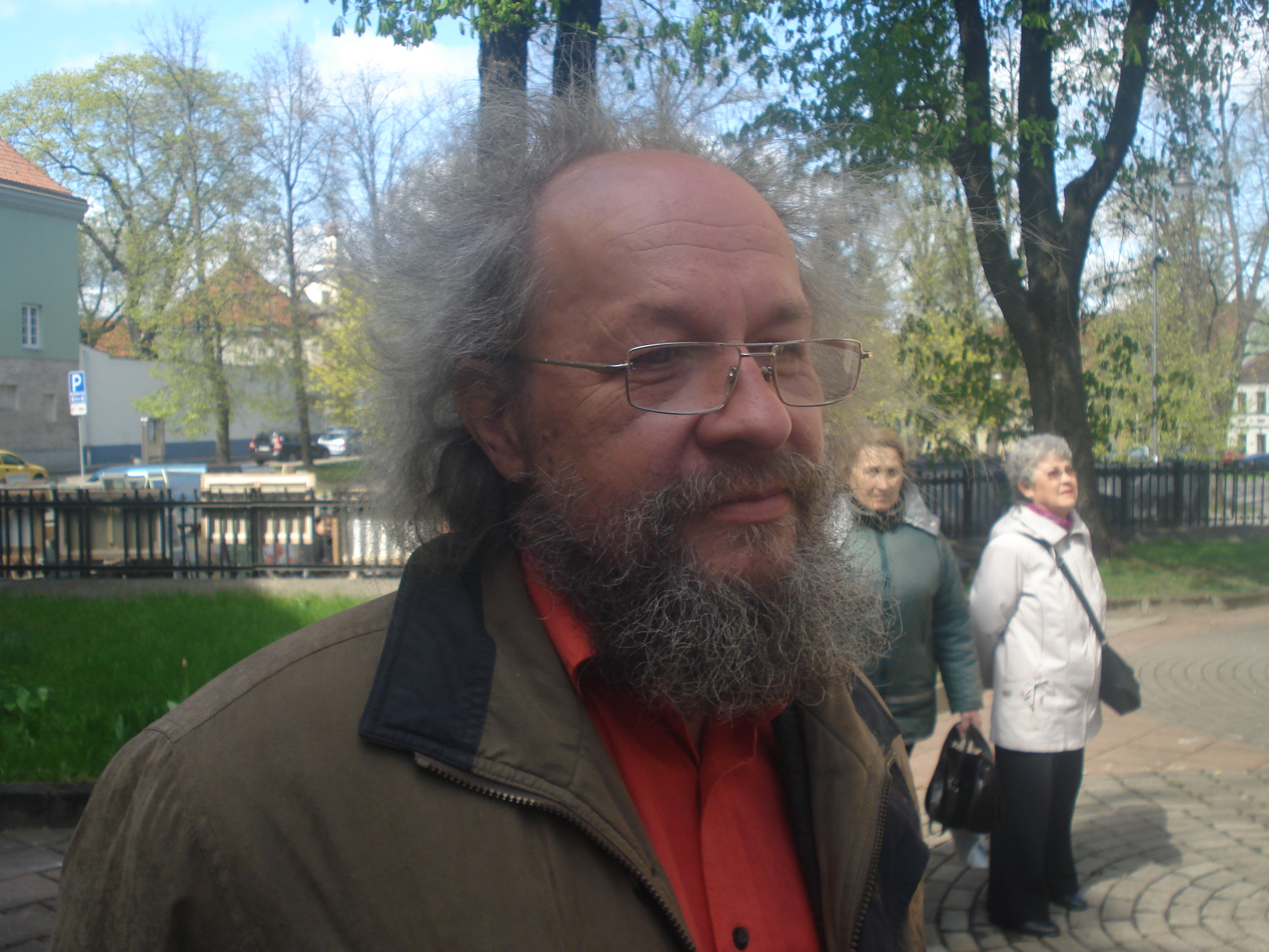 Vytautas Nalivaika, Lithuanian sculptor